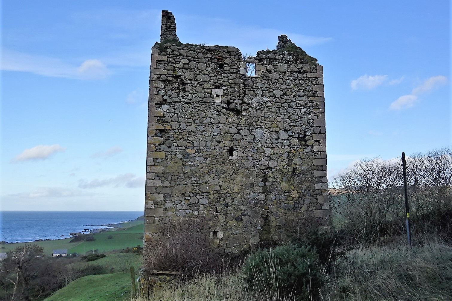 Carleton Castle tower ruins from the south-east, Little Carleton Farm, Lendalfoot, South Ayrshire, Scotland.